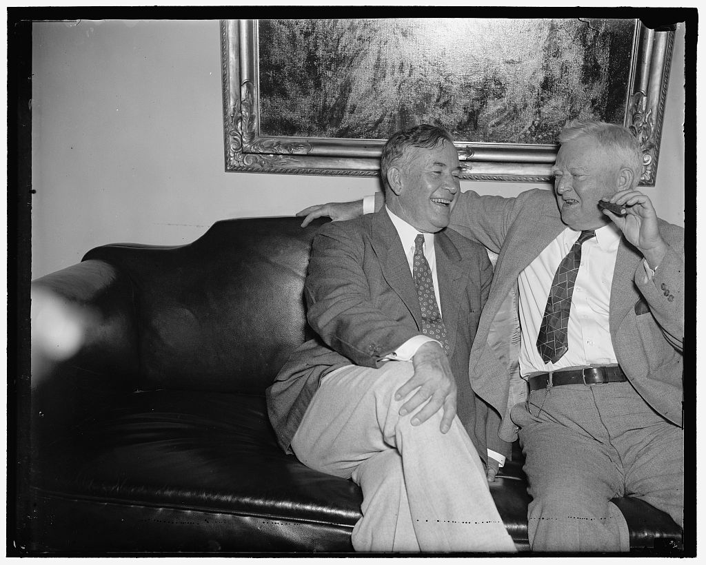 Kentucky Senator Alben Barkley meets with U.S. Vice President John Garner after Barkley's election as Senate Majority Leader